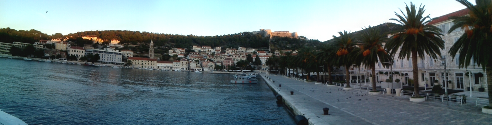 Panorama photo of Hvar